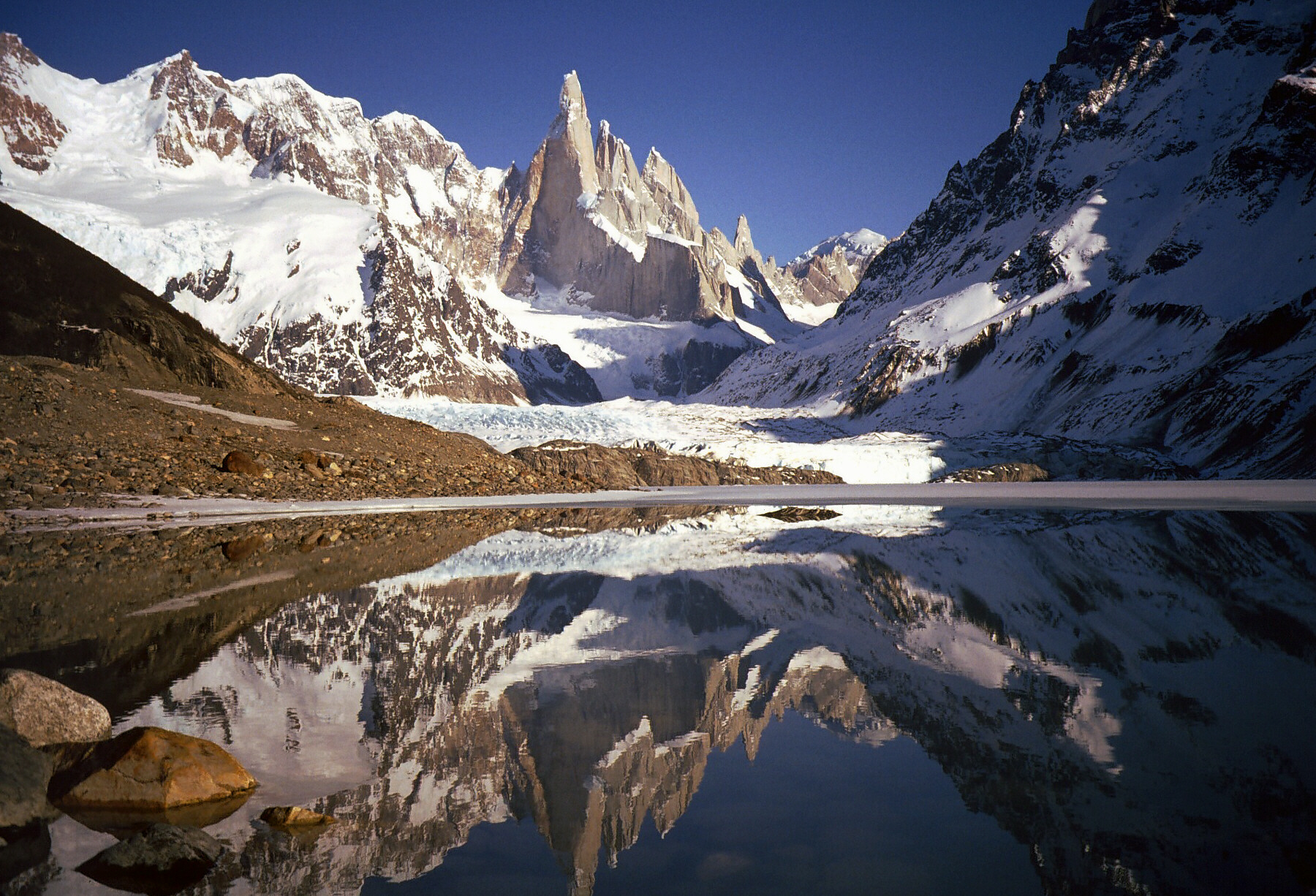 Cerro Adela Norte, Cerro Torre, Torre Egger, Punta Heron, Aguja Standhardt, Bifida Sur/Norte, Pachamama and Cuatro Dedos (left to right), infront Glaciar Torre (Torre-Glacier) and Laguna Torre (Torre-Glacier-Lake)